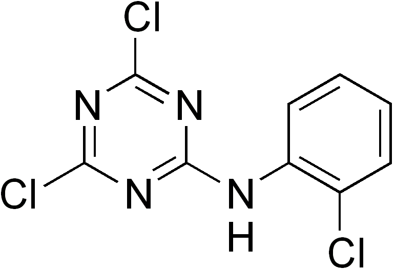 chemical structure of anilazine